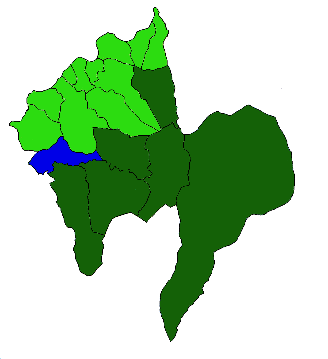 Map of Cousso in Melgaço, Portugal